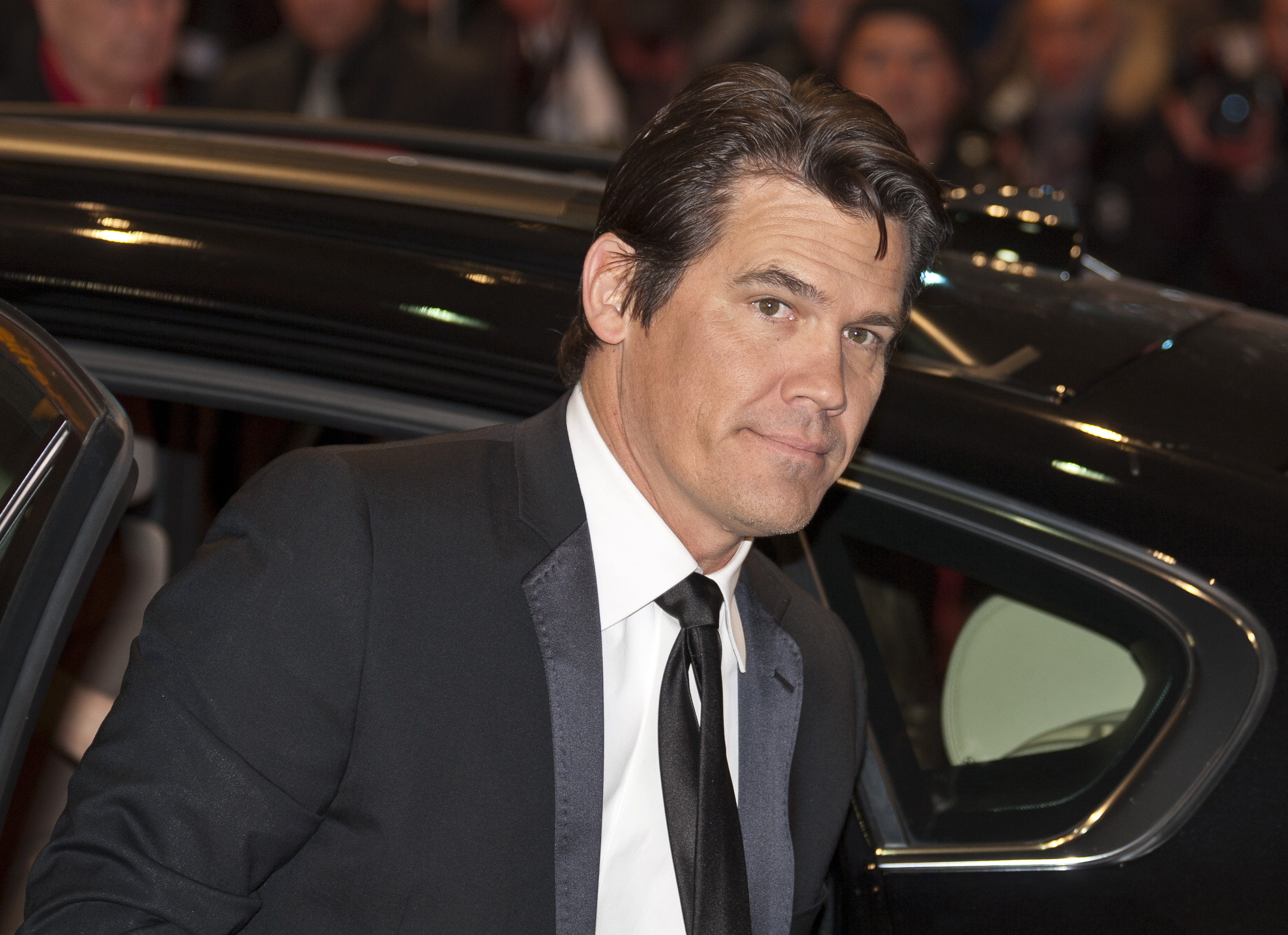 Josh Brolin attending the premiere of True Grit at the Berlin Film Festival 2011